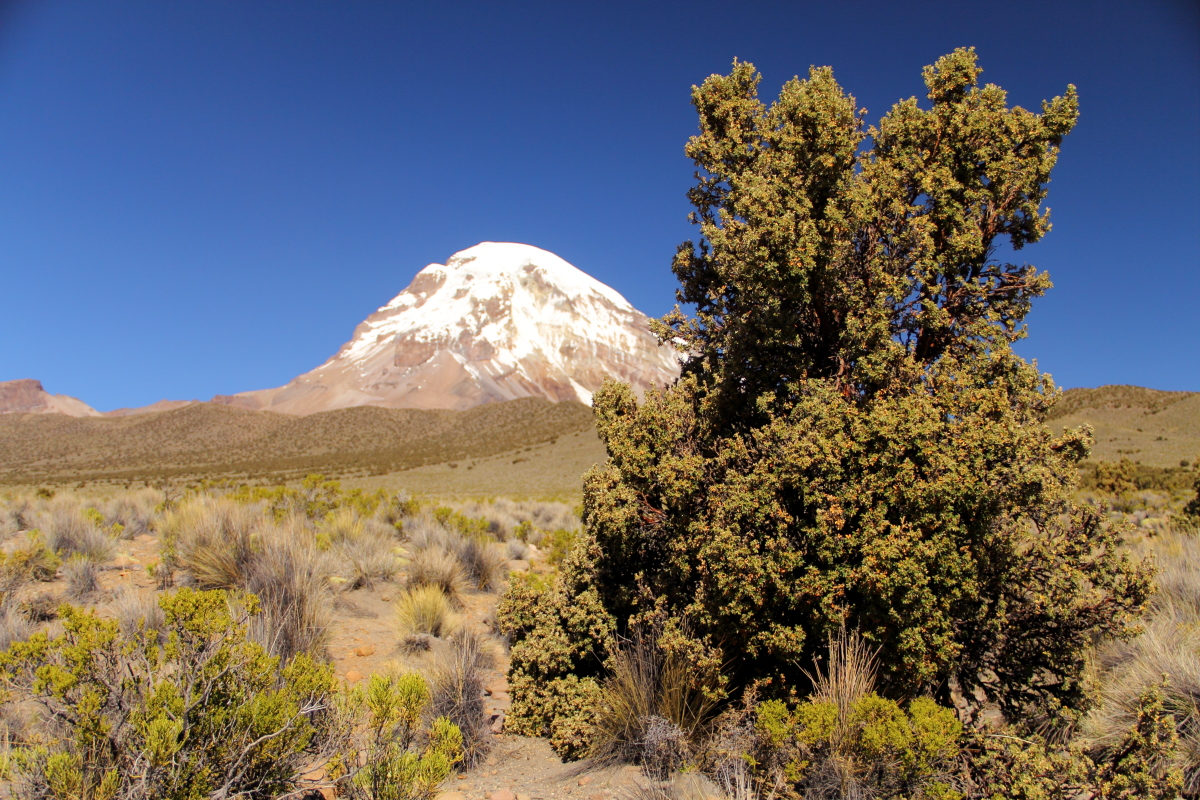 Queñua tree at the foot of Mount Sajama, National Park Sajama, Bolivia.